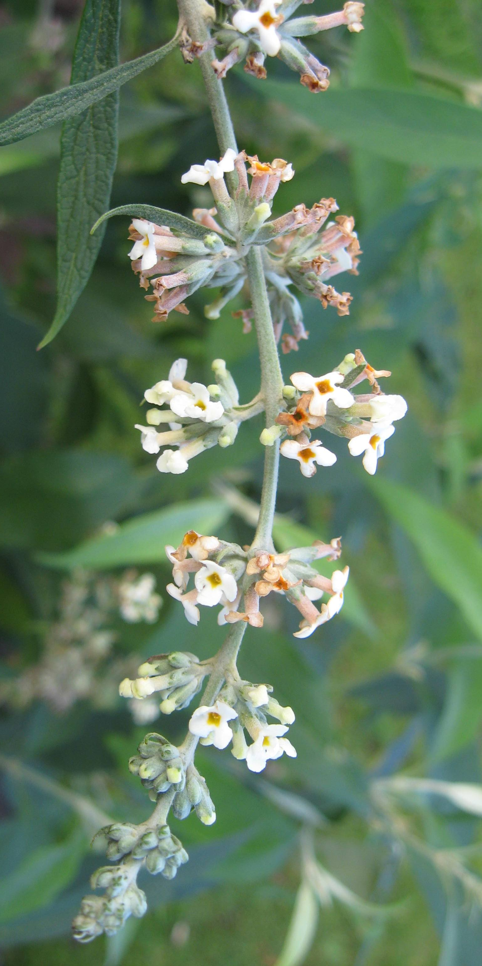 Photo of the inflorescence of Buddleja paniculata, taken at Portchester, England.